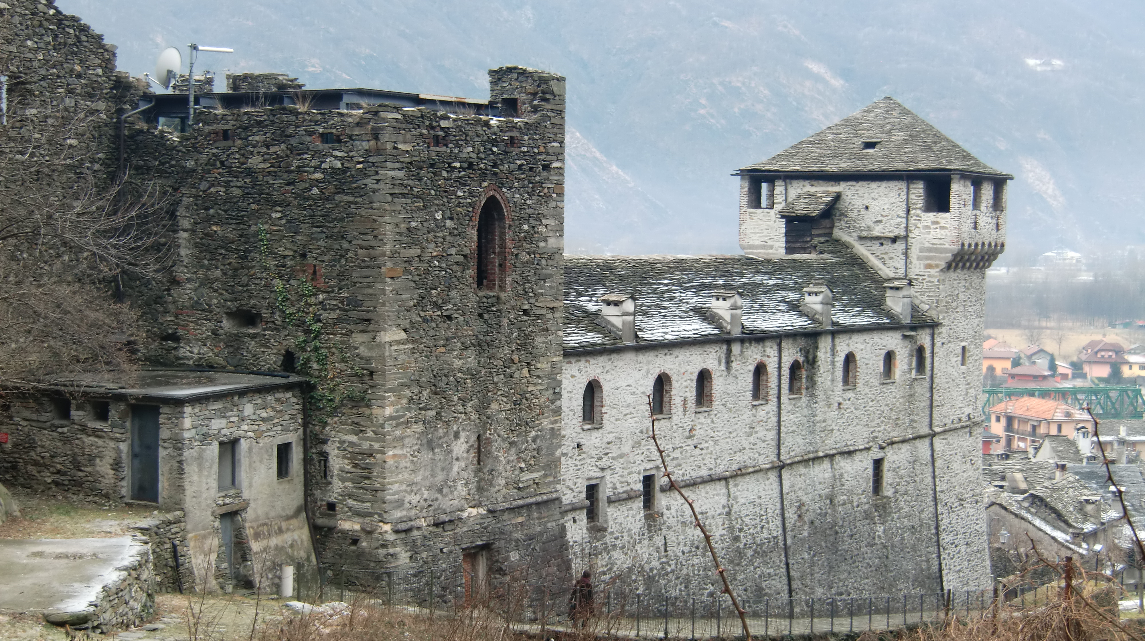 Vogogna, view of the castle (XIV century)